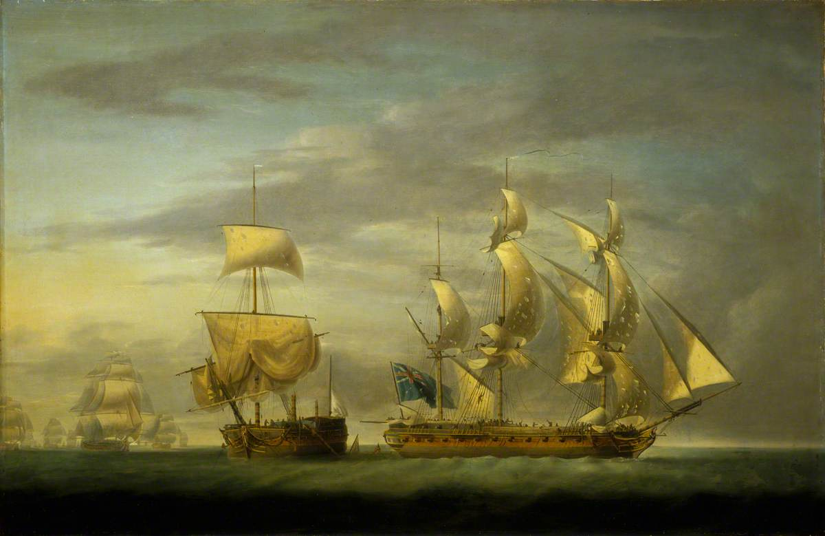 Dodd, Robert; Action Between the 'Amazone' and HMS 'Santa Margarita': Cutting the Prize Adrift, 30 July 1782; National Maritime Museum